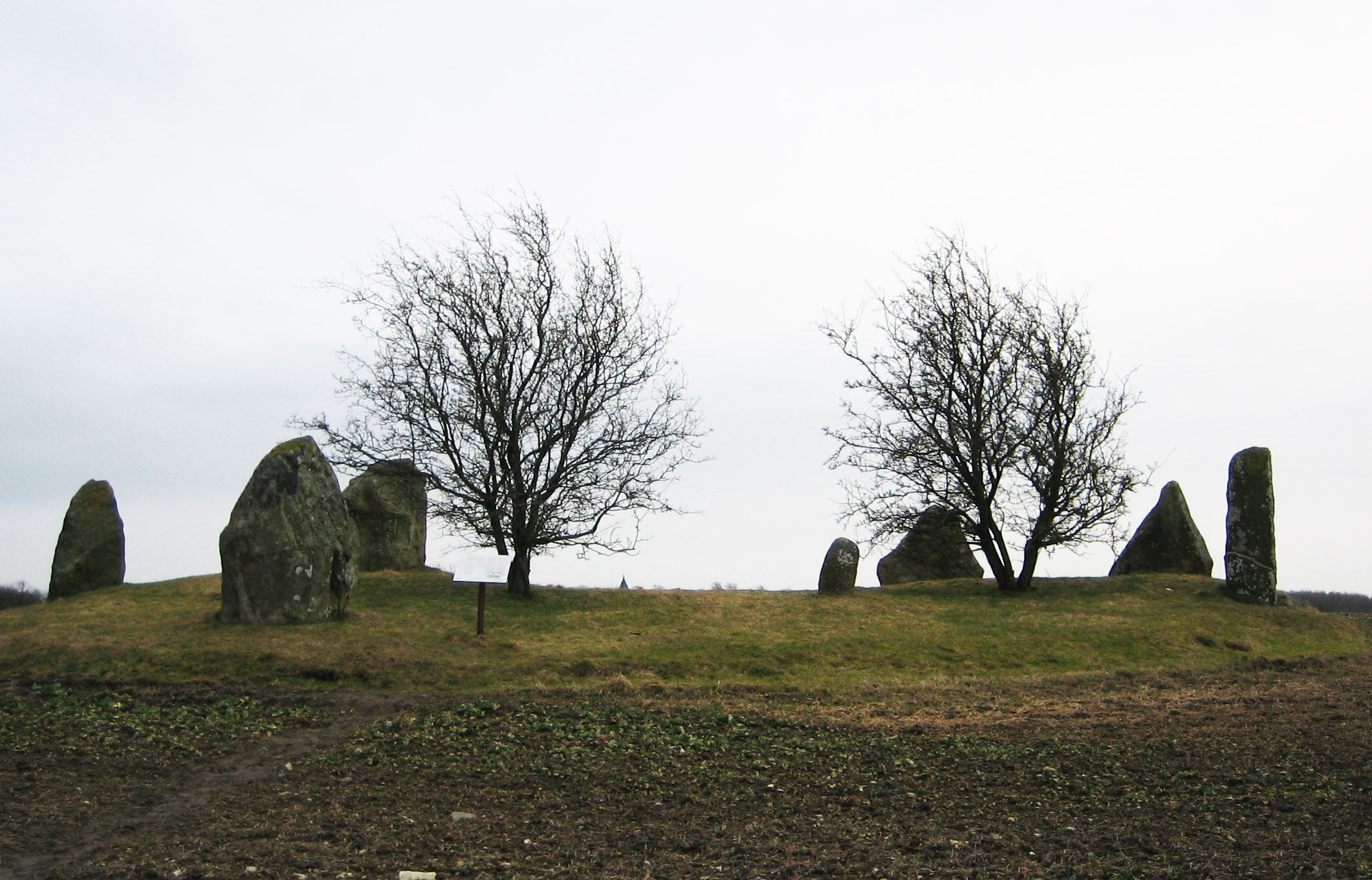 The viking age monument at Västra Strö, Skåne, Sweden. Photo by the uploader 2009-03-14.